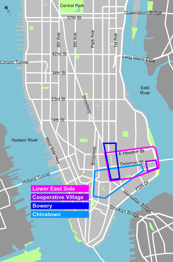 map of the Lower East Side of Manhattan, New York